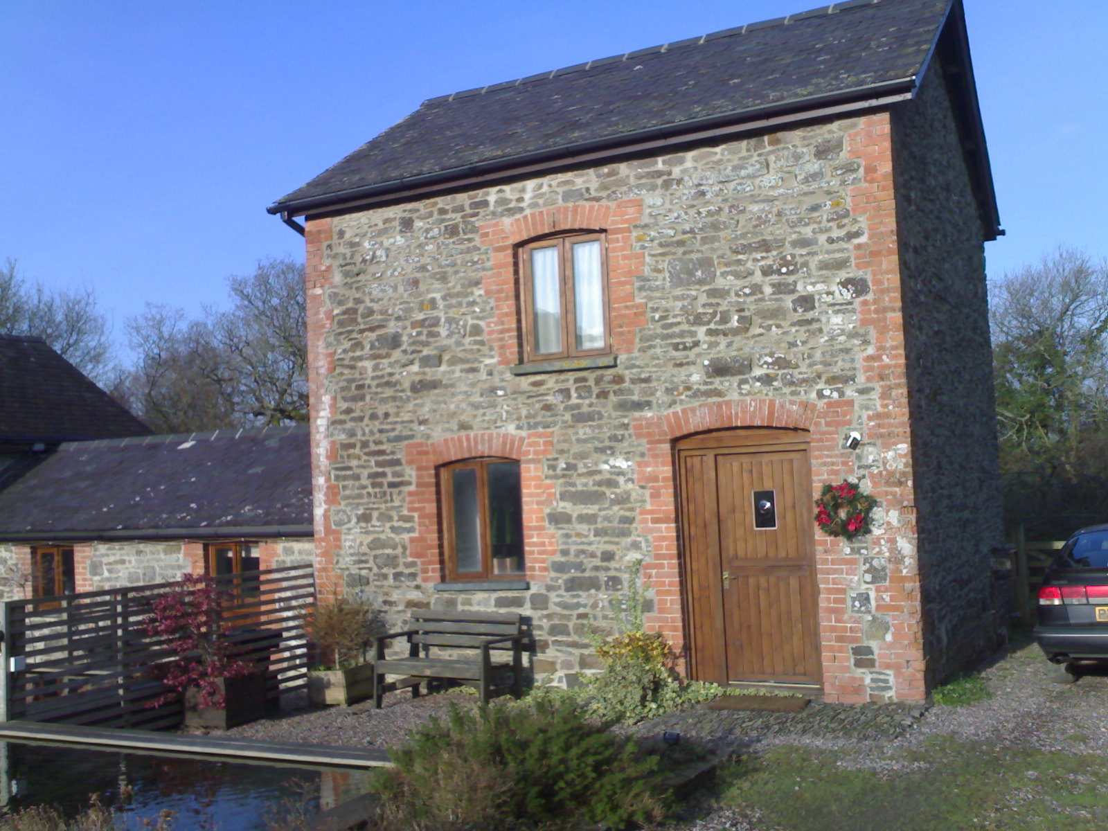 The Cider Barn at Lerwell farm in Chittlehampton, Devon - a nice little cottage converted from an old barn - we stayed there over Christmas 2006